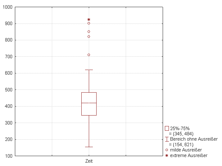 Plot of a Box-Plot with Whiskers to 1.5 interquartile range. The picture was created with Statistica v. 8.0